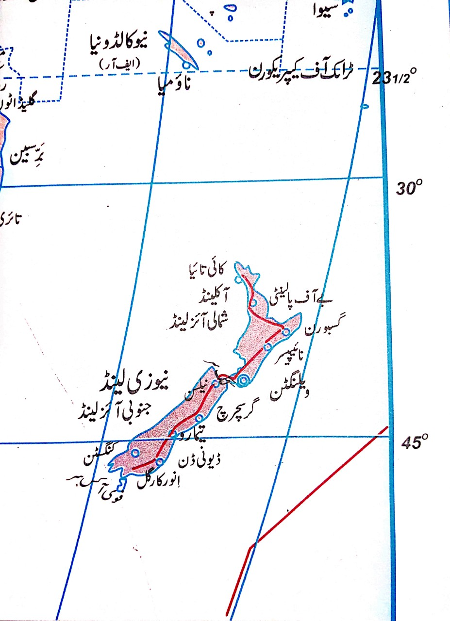 Map of New Zealand in Urdu